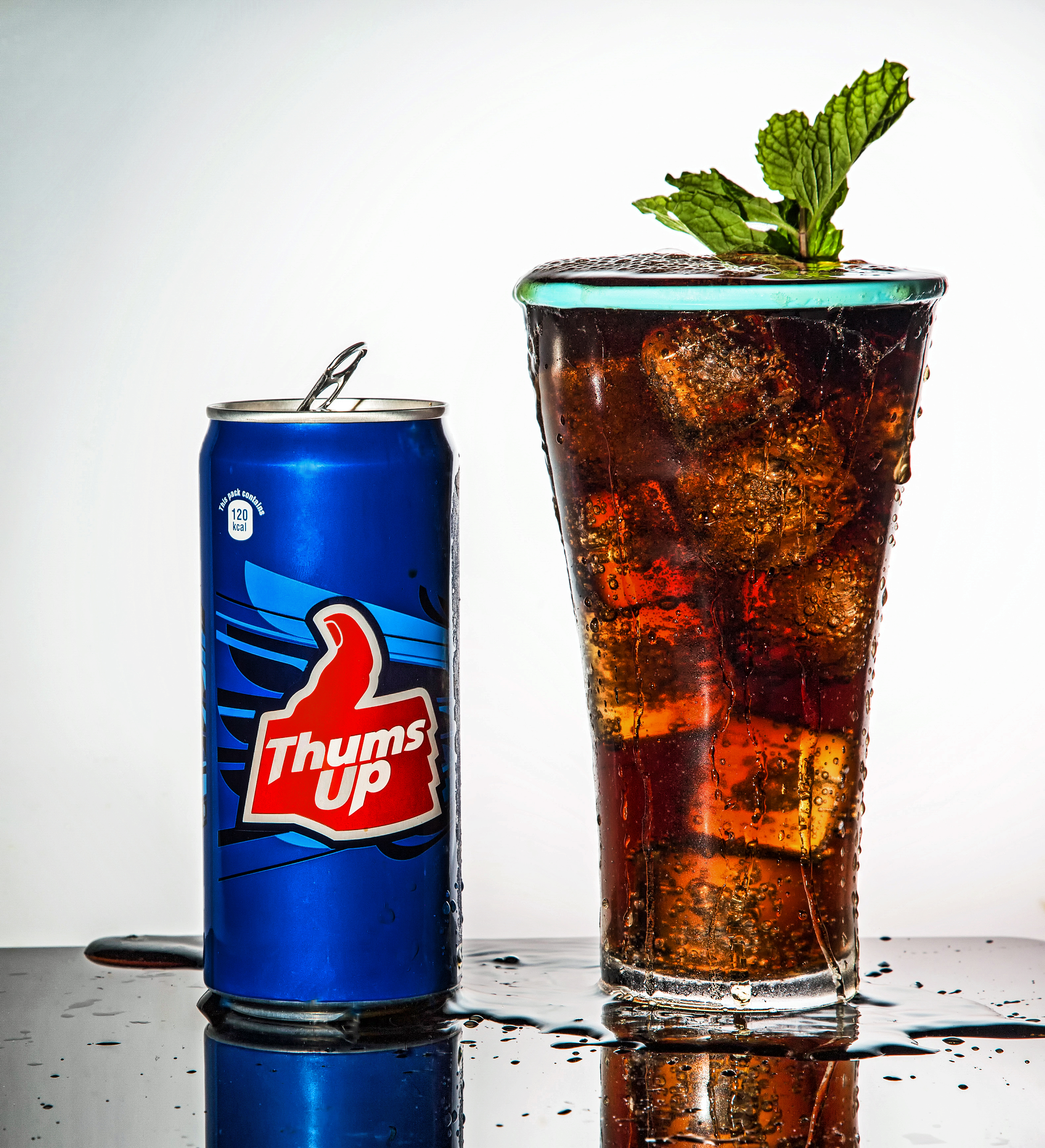 Thums Up is a brand of cola in India. The logo is a red thumbs up. It was introduced in 1977 to offset the withdrawal of The Coca-Cola Company from India. IT IS THE LARGEST SELLING SOFT DRINK BRAND IN INDIA. Originally introduced in 1977, Thums Up was acquired by The Coca-Cola company in 1993.